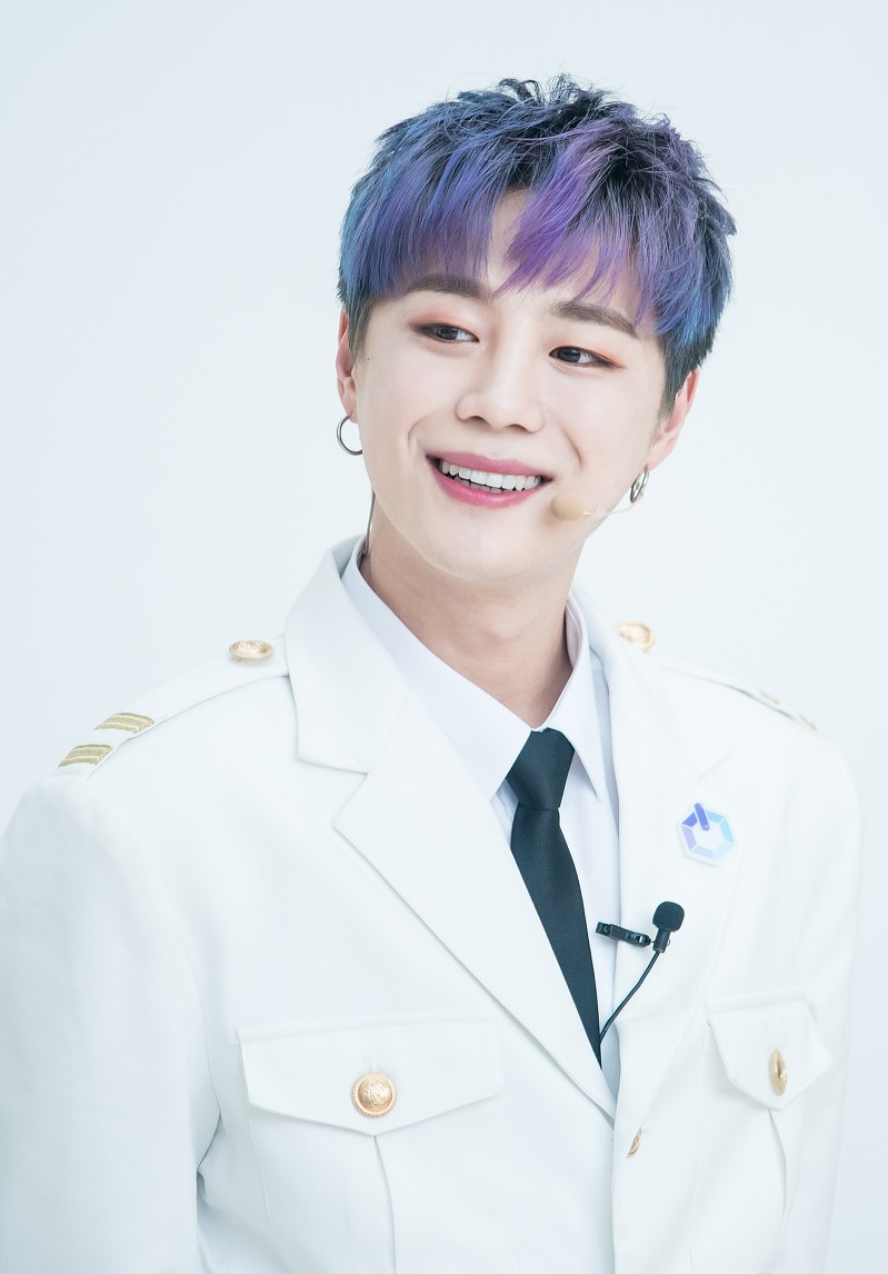 180211 더유닛 유닛B